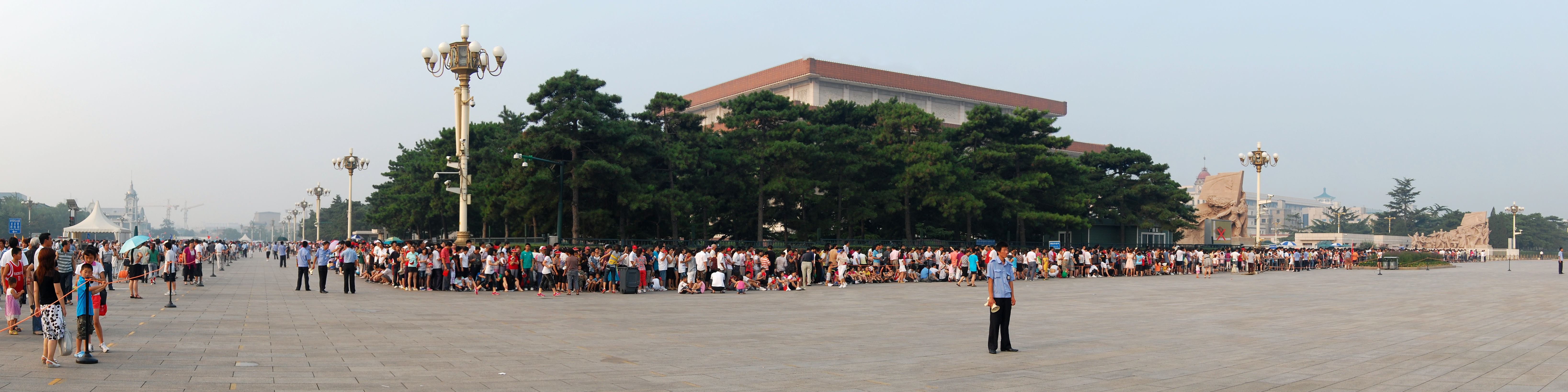 A queue to enter Mao Zedong Mausoleum on Tiananmen Square, Beijing, China.